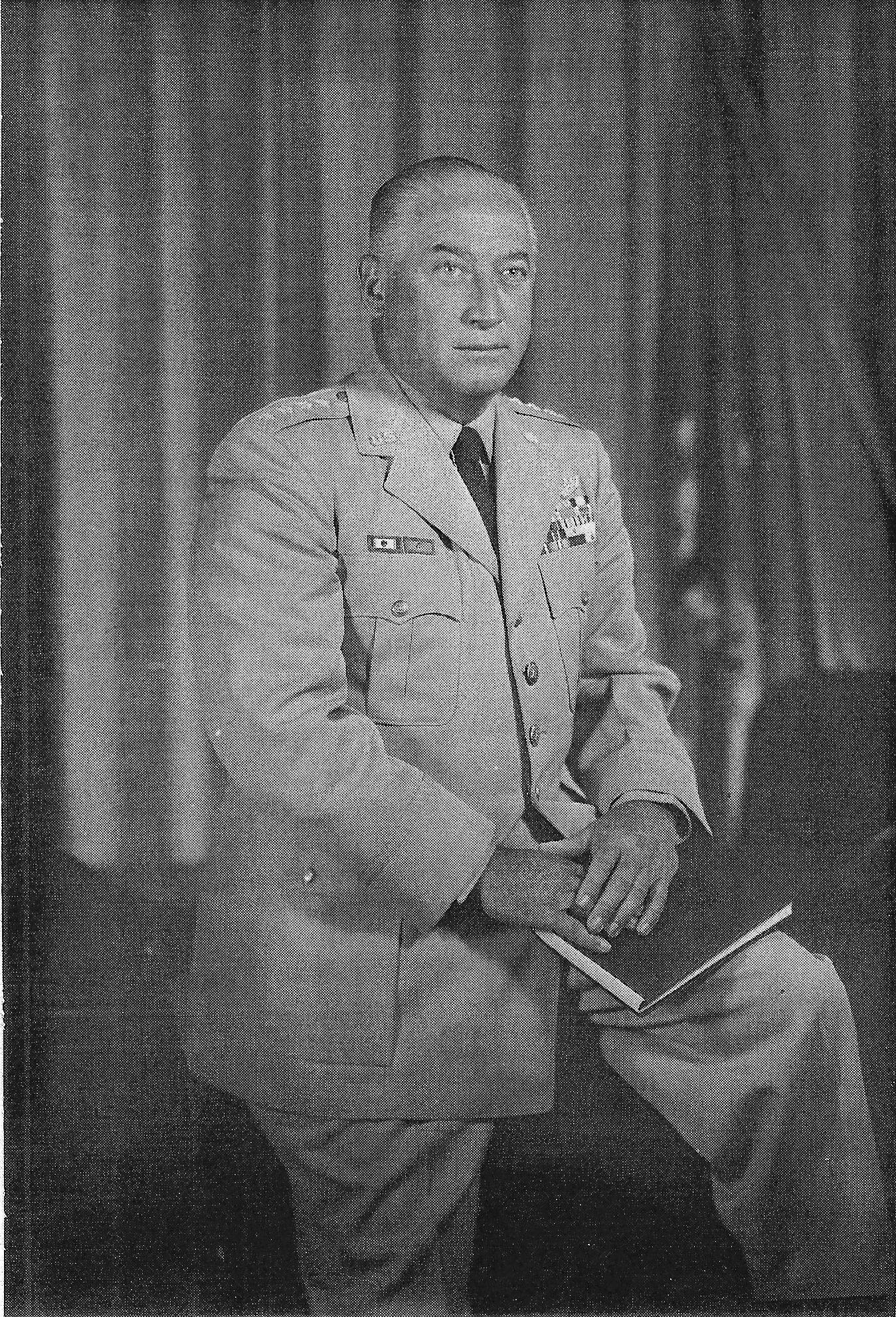 GEN Emmett O'Donnell, Jr.. Original in color. NARA Citation 342-B-12-32-1-KE-11403